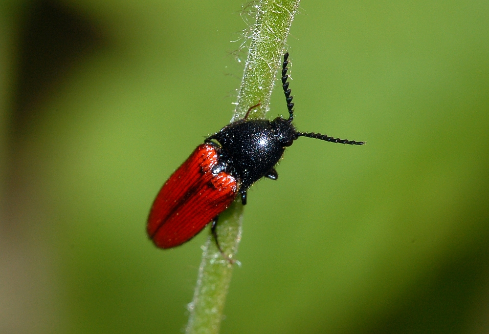 Ampedus species, Nied, Selzerbrunnen, Frankfurt am Main, Germany